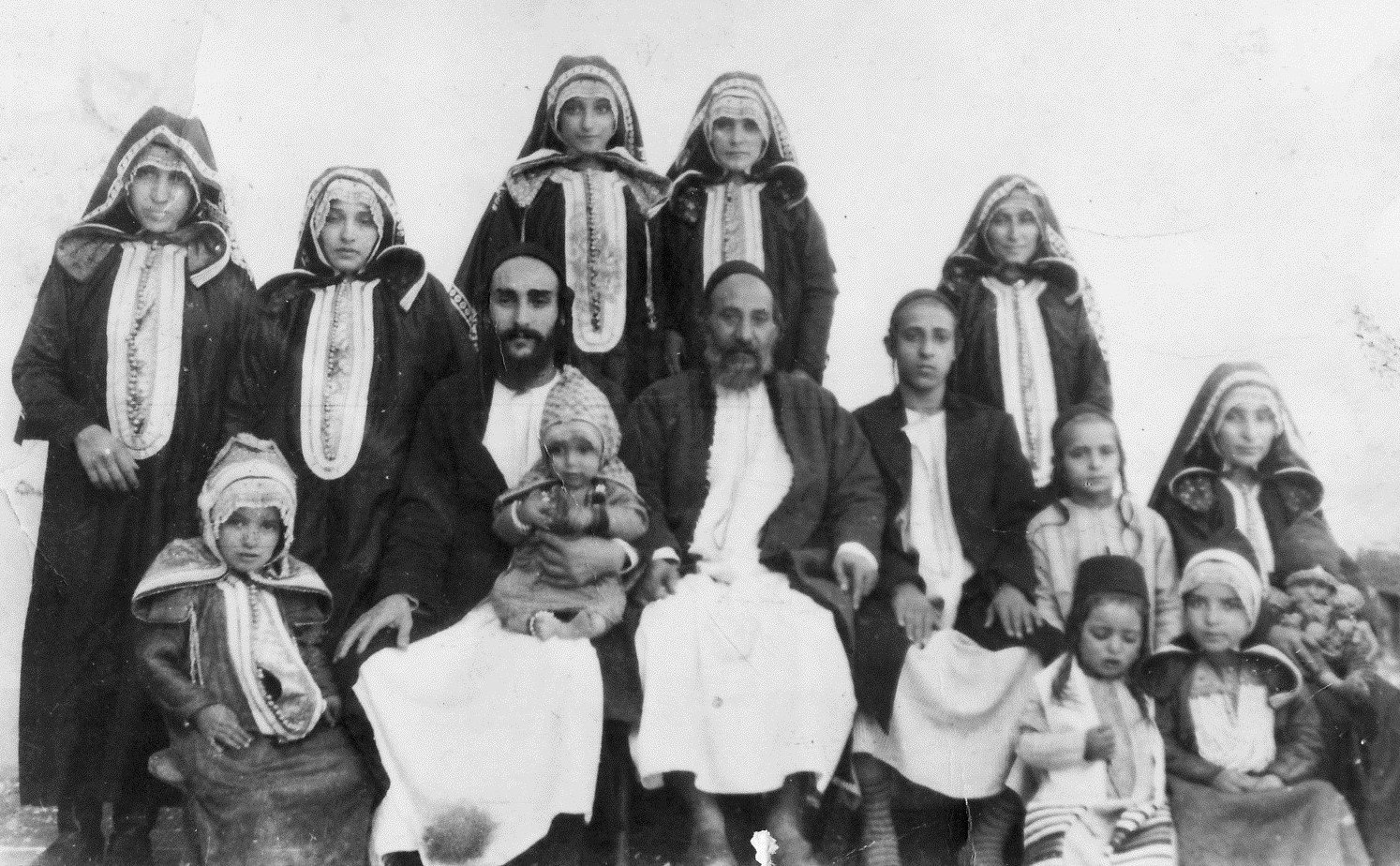 Family portrait taken circa 1944. The family of Suleiman ben Pinhas al-Cohen (the elderly man sitting), and his son, Salam (Shalom) Cohen, sitting next to him with a baby in his arm. Standing next to Salam is his sister, Sham’a (Shoshanna Bedihi). In Yemen, the father and his son worked in silver gilded with gold (Ar. asli), the only family in Sana’a to work in this profession. Other information Copies of the original photo were made and distributed to members of the family, before Rumia (the wife of the photographer, Yihi’el Haiby) bequeathed her deceased husband’s photographic collection to the Israel Museum in Jerusalem. This image, however, is now in the public domain because its term of copyright has expired in Israel. According to Israel's copyright statute from 2007 (translation), “a work is released to the public domain on 1 January of the 71st year after the author's death (paragraph 38 of the 2007 statute) with the following exceptions: ##A photograph taken on 24 May 2008 or earlier — the old British Mandate act applies, i.e. on 1 January of the 51st year after the creation of the photograph (paragraph 78(i) of the 2007 statute, and paragraph 21 of the old British Mandate act).” Since this photograph was made in Yemen in the circa 1944, more than 70 years have transpired since its creation.